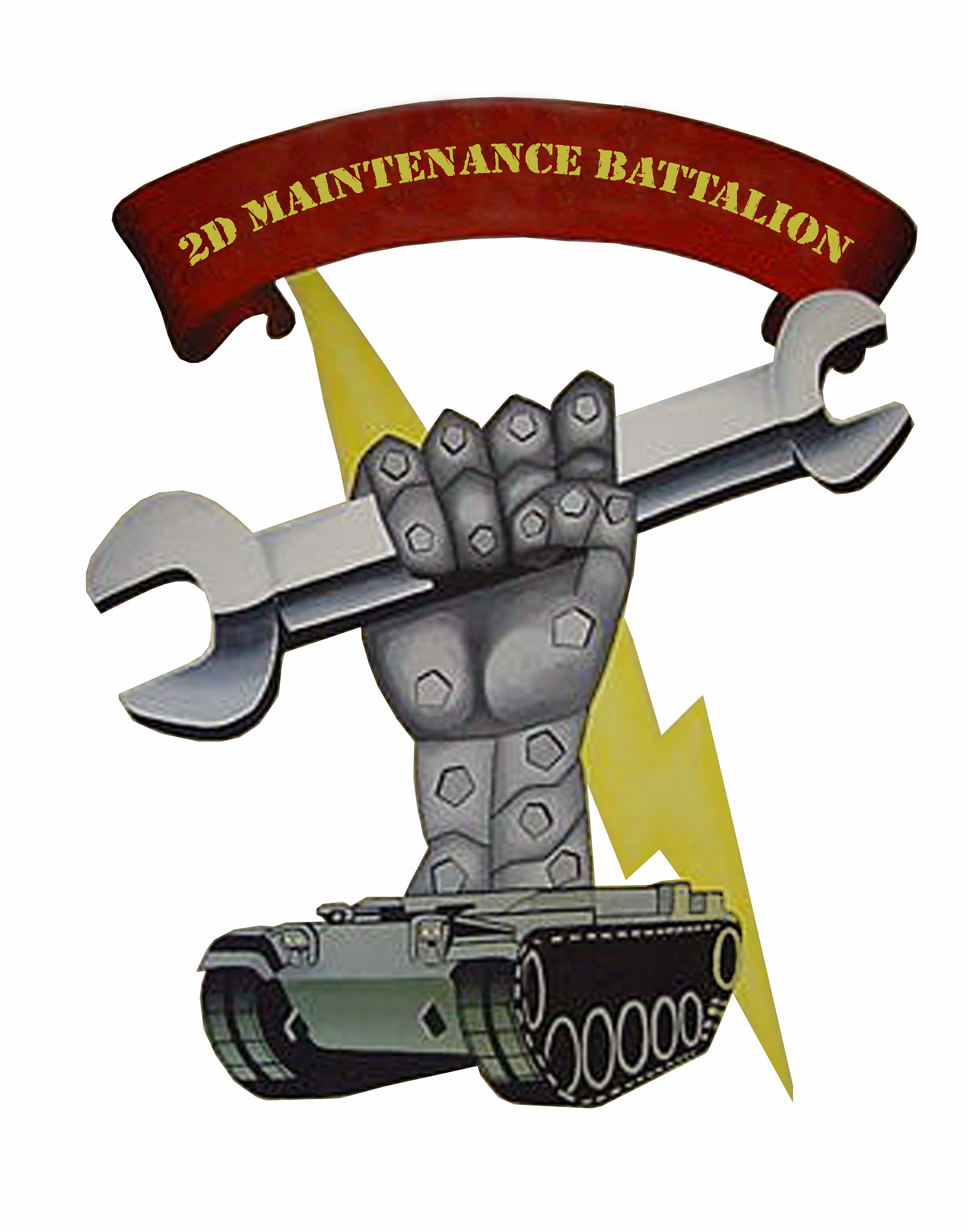 From the Depart of Defense image search website - Defense Visual Information Center. Picture comes up if you search for 2nd Maintenance Battalion ID: DM-SD-05-12380 Service Depicted: Marines Official logo 2nd Maintenance Battalion. Location: CAMP LEJEUNE, NORTH CAROLINA (NC) UNITED STATES OF AMERICA (USA) Date Shot: 1 Jan 2005